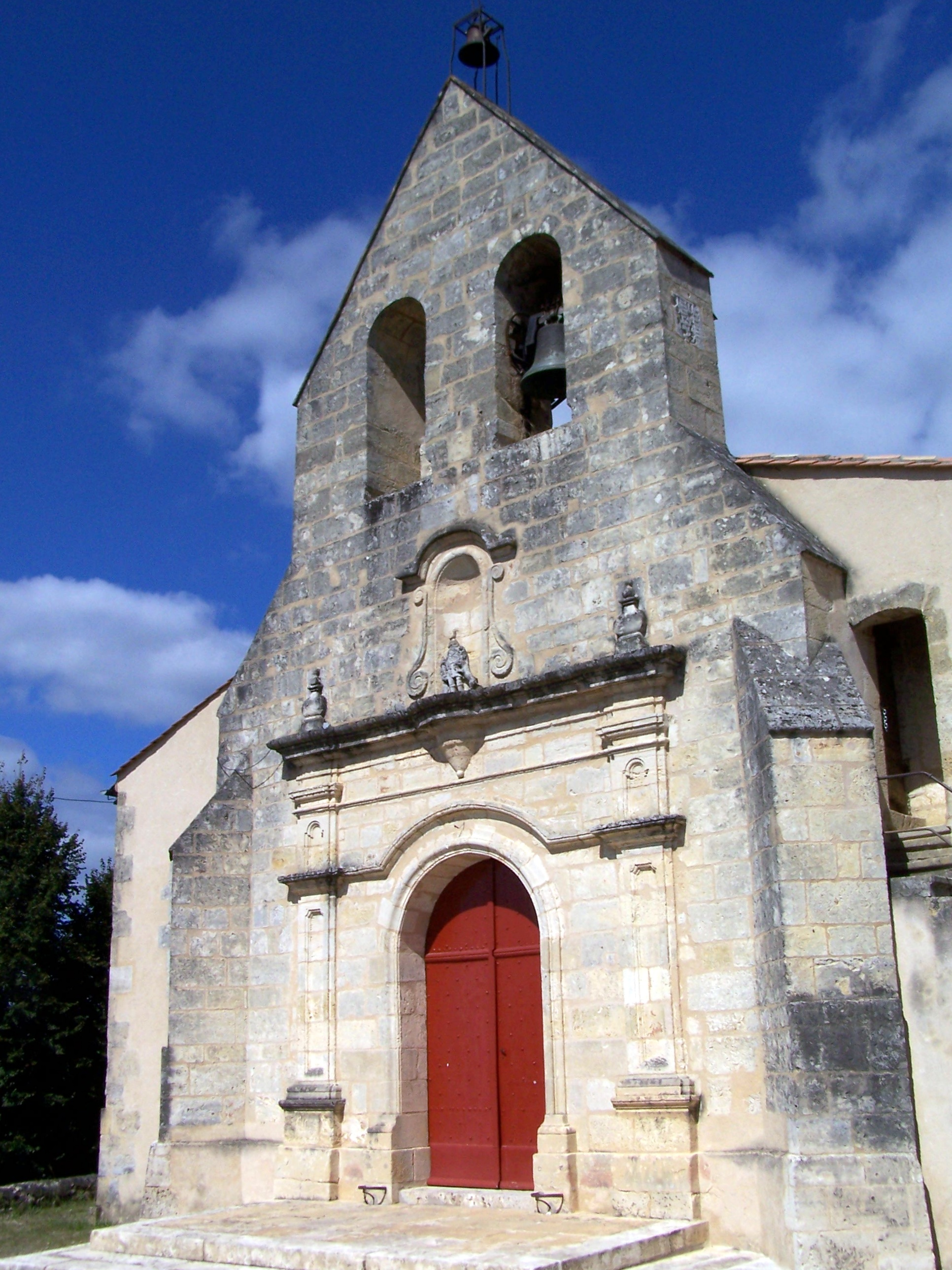 Church Saint-Hippolyte-et-Sainte-Radegonde of Arbanats (Gironde, France)